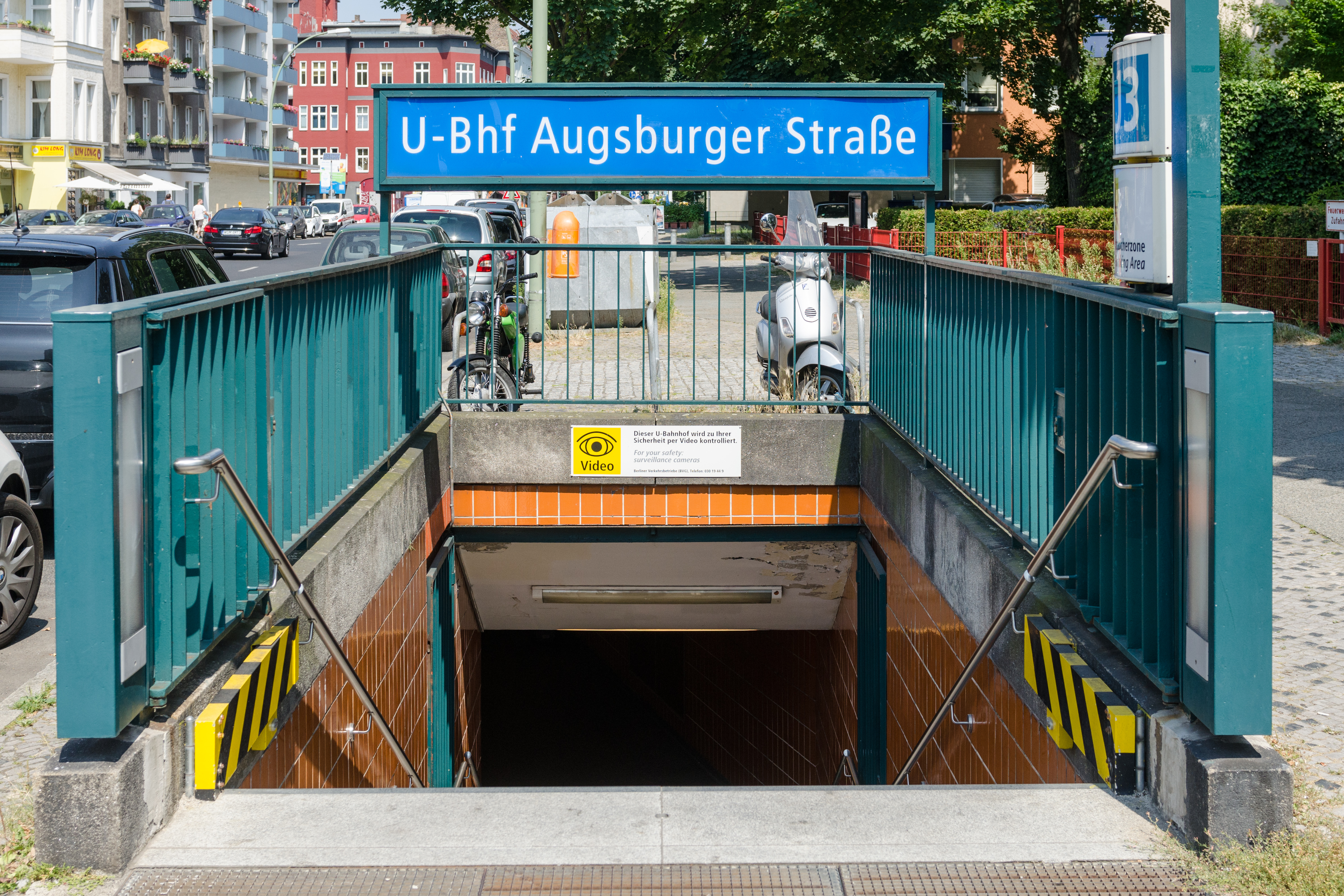 One of the entries to the Berlin Subway station Augsburger Straße in Berlin-Charlottenburg